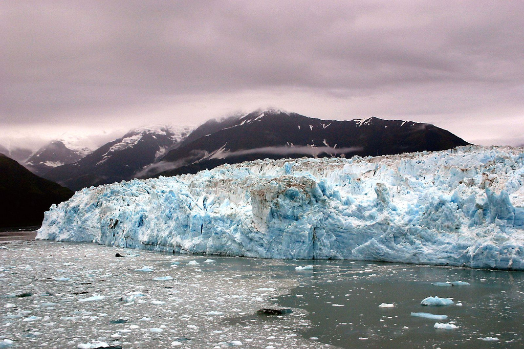 Alaska, September 06. Hubbard Glacier is the longest tidewater glacier on the North American Continent, at 76 miles from its source on Mount Logan in the Yukon Province of Canada to its face in Yakutat and Disenchantment bays in Alaska. The face of Hubbard is almost six miles in length, and has been advancing for about a century. Every day massive blocks of ice 'calve' off the glacier and fall into the sea, forming icebergs that eventually flow out into Yakutat bay and thence to the open sea. This is an amazing sight to see, accompanied by a thunderous roar known locally as 'White Thunder'. First, a sharp 'crack' is heard, followed by a low rumble as tons of ice and rock can be seen tumbling down the ice face into the sea, creating a small tidal wave and throwing up a cloud of debris and ice particles into the air, like a small explosion. The low rubble continues to echo around the bay, bouncing off the mountains. Then total silence, until the procedure starts over again.